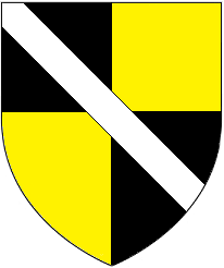 Arms of Langton, of Newton Park, Newton St Loe, Somerset: Quarterly sable and or, a bend argent. The family was an ancestor of the Temple-Gore-Langton family, Earl Temple of Stowe, which quarters the Langton arms. (Debrett's Peerage, 1968, p.1088)